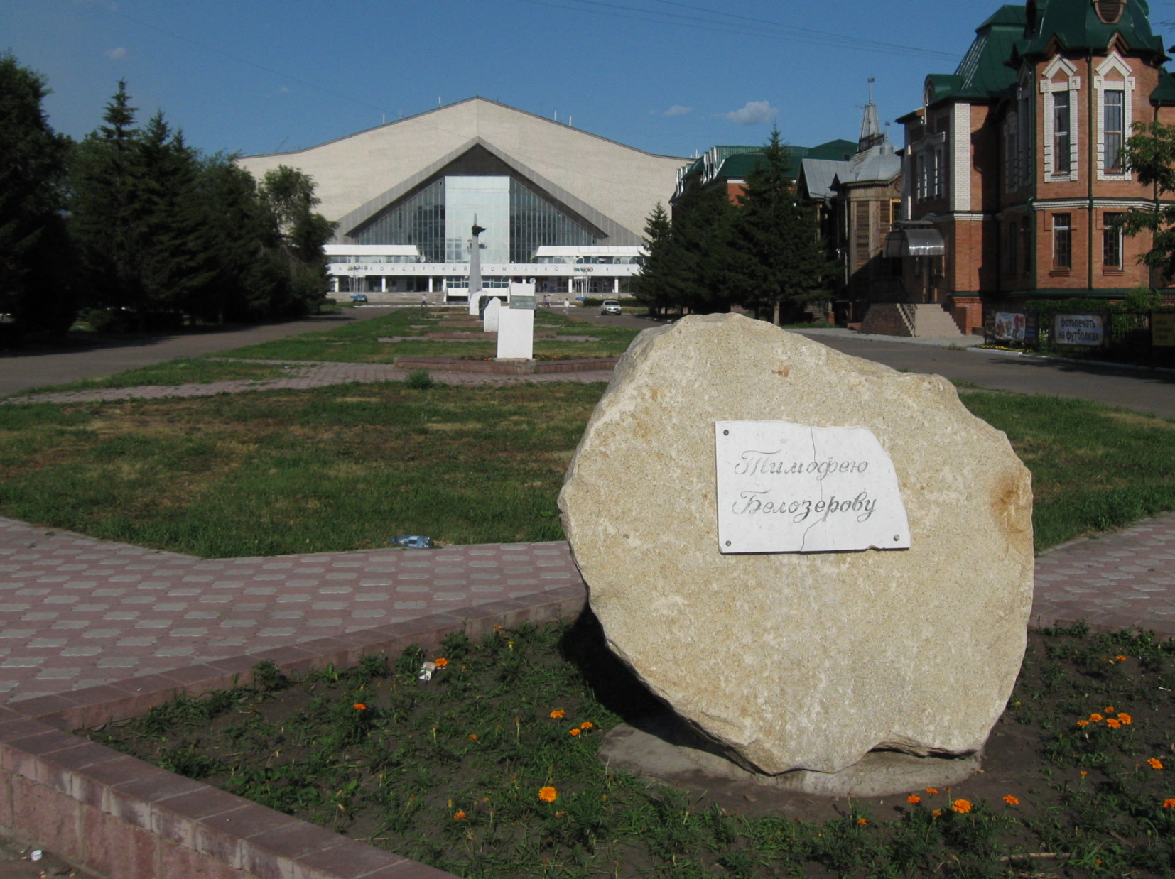 Memorial stone to Russian poet Timofey Belozyorov (Omsk, Russia)